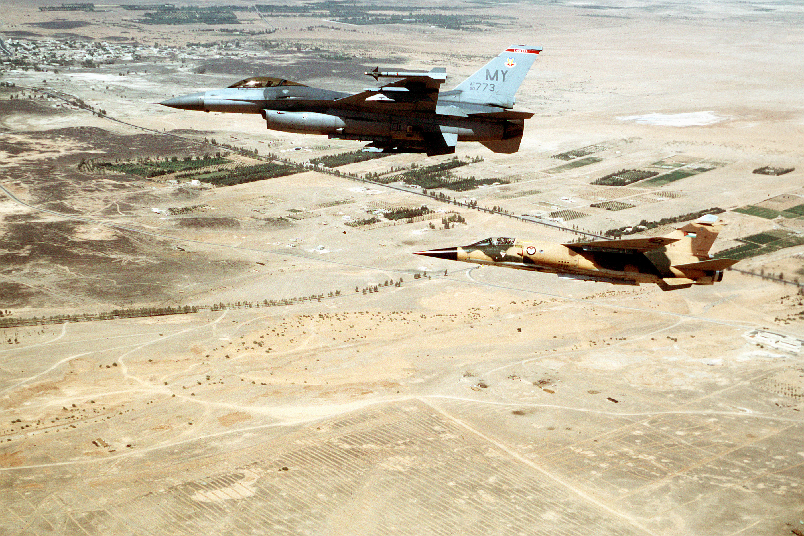 Aerospace control includes missions such as this U.S. F-16 Fighting Falcon, carrying an Aim-9 Sidewinder missile, and Royal Jordanian Air Force F-1 Mirage flying over Iraq. These sorties are designed to gain control over an aerospace environment. Published in Airman Magazine October 1996.